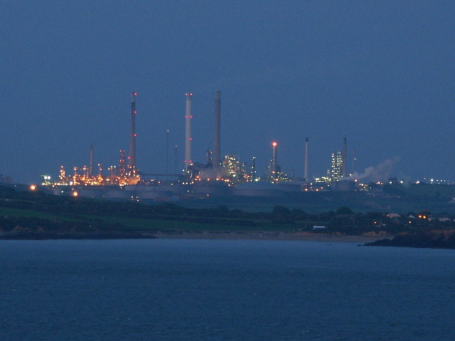 Rhoscrowther Oil Refinery. Dusk photo of Rhoscrowther Oil Refinery taken with zoom lens from West Blockhouse Point. West Angle Bay shown in the foreground. Photographed using Minolta Dimage 7i.